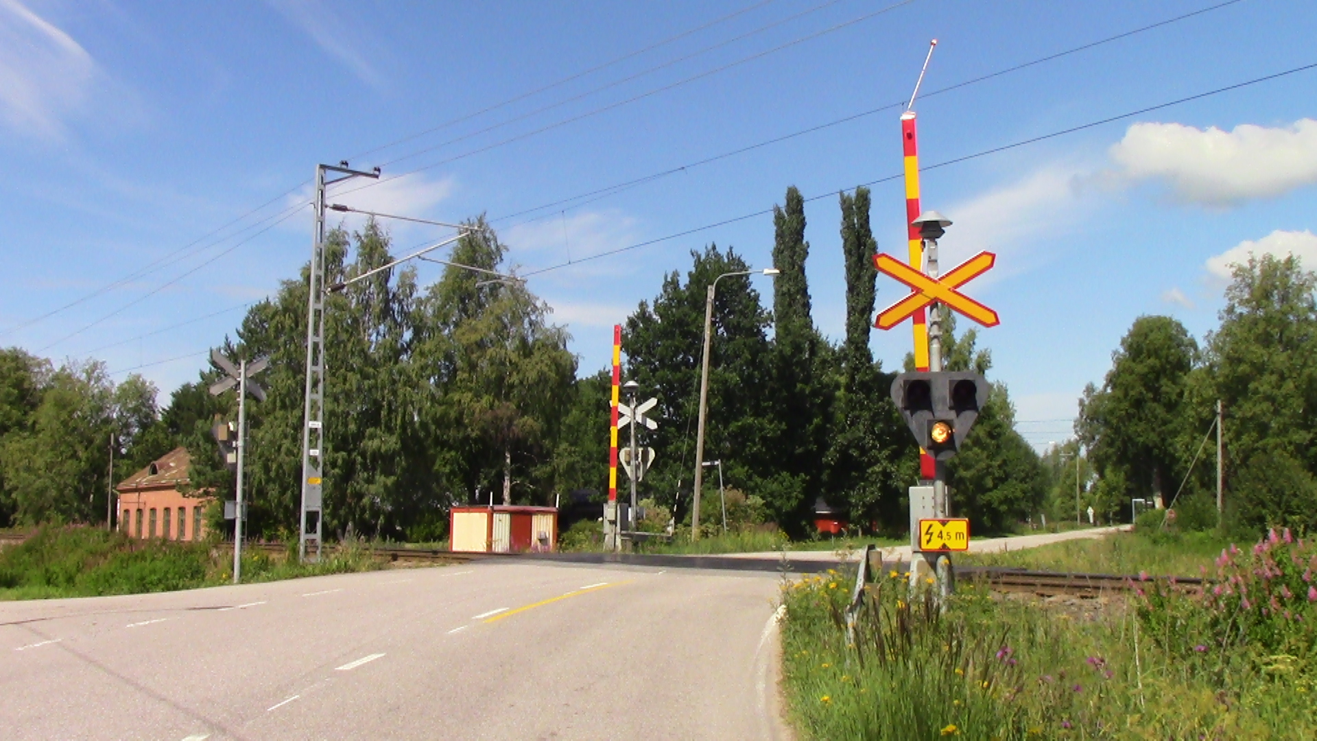 Finnish connecting road 7024 at Kylkkälä level crossing in Isokyrö's Tervajoki, Finland. The road runs from national road 18 to Tervajoki railway village.